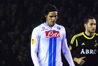 Cavani and Backman during AIK-Napoli, UEFA Europa League 2012-2013